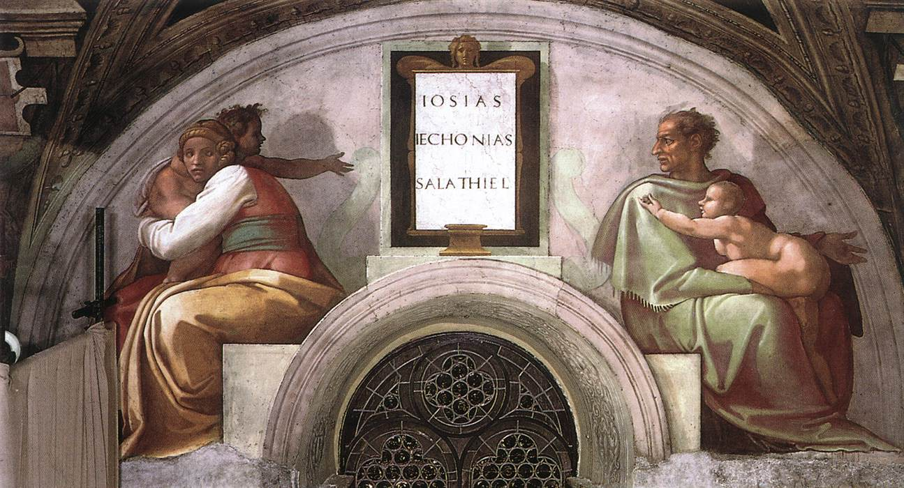 fresco painted by Michelangelo at the Sistine Chapel in the Vatican between 1508 to 1512